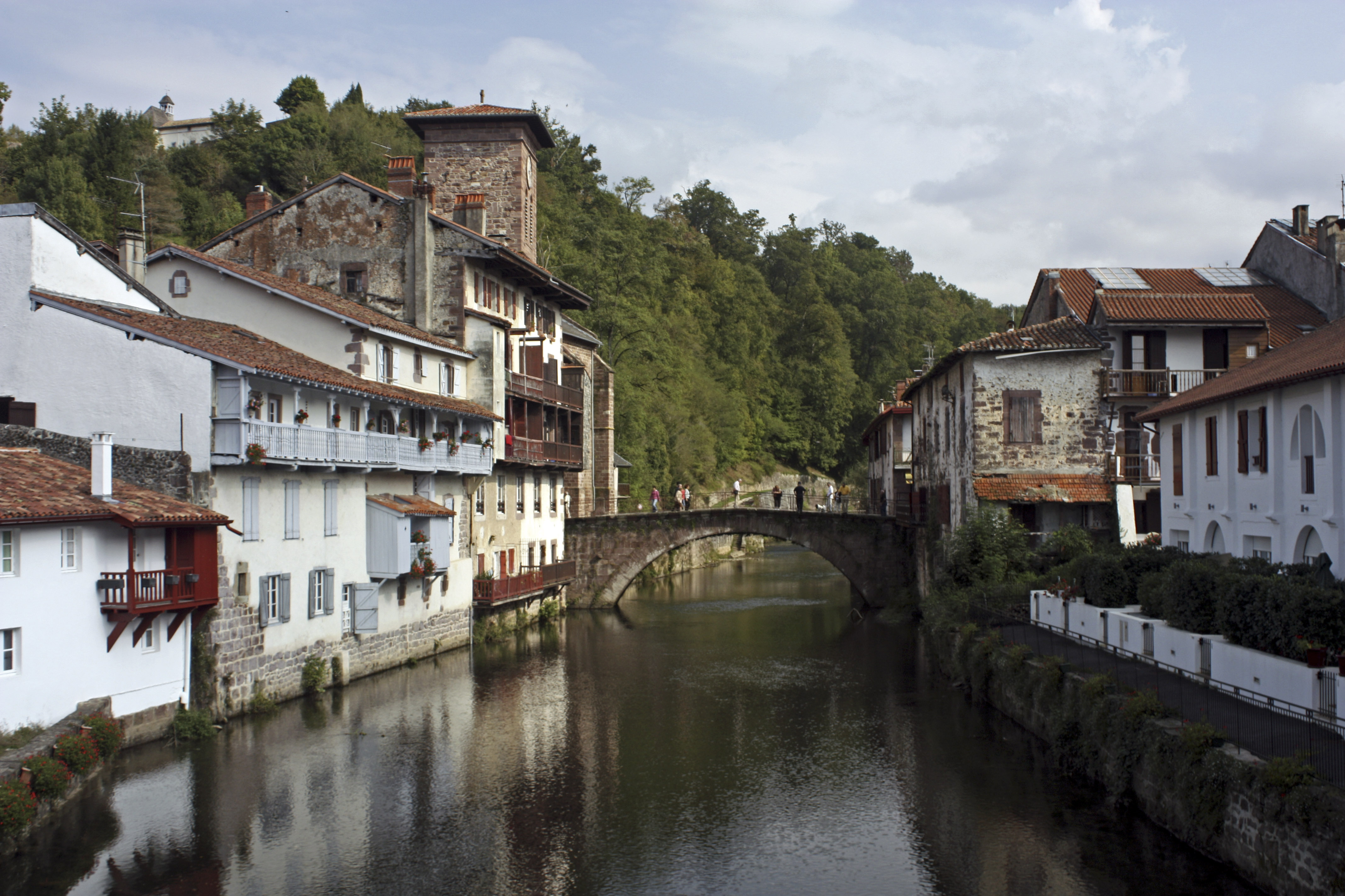 The door of Notre-Dame, the spike of the church, the bridge over the Nive, which marks the beginning of the "Camino Frances" to Roncesvalles.